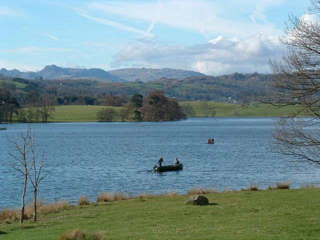 Esthwaite Water.